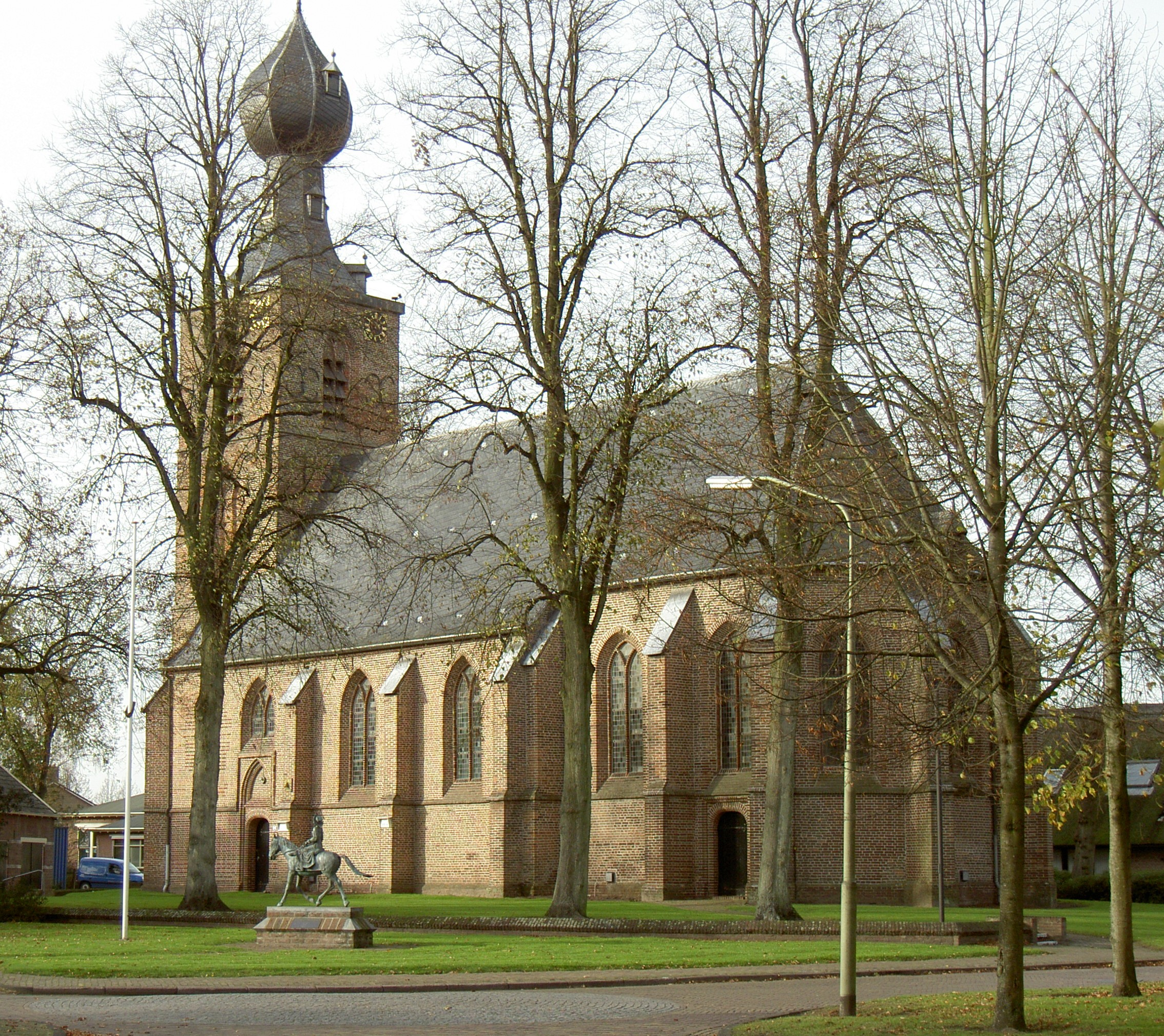 The Dutch Reformed church of Dwingeloo, with its characteristic top. On the foreground also the statue of the 'Juffertje van Batinghe'.